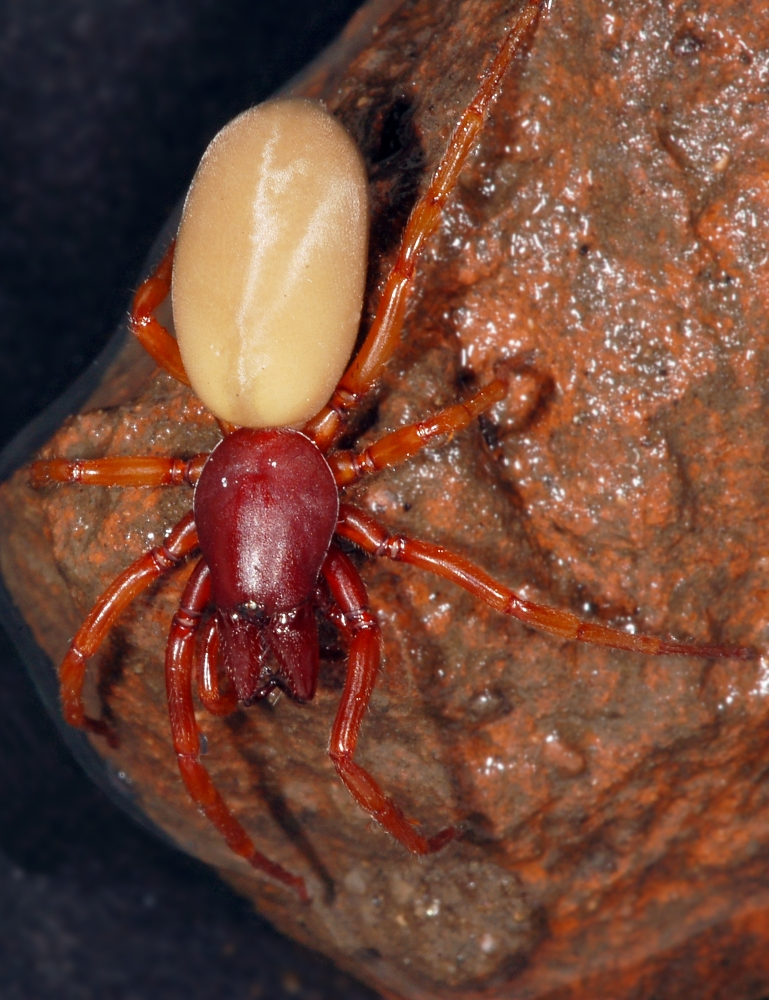 Dysdera erythrina, Nied, Frankfurt/Main, Germany